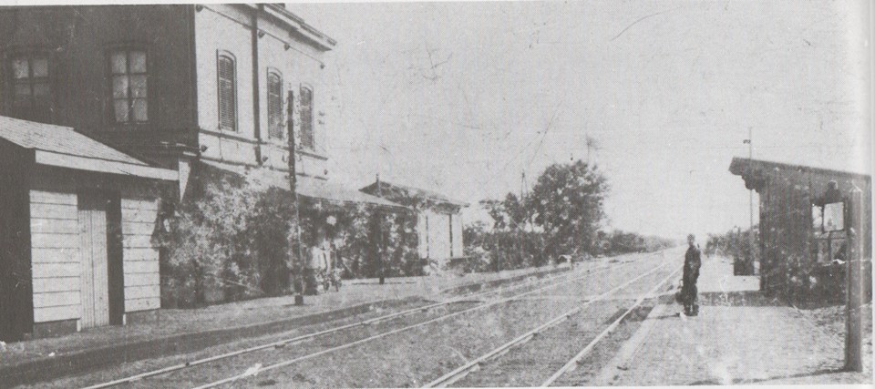 Station Veenenburg in Hillegom. Openend 1842, closed 1896